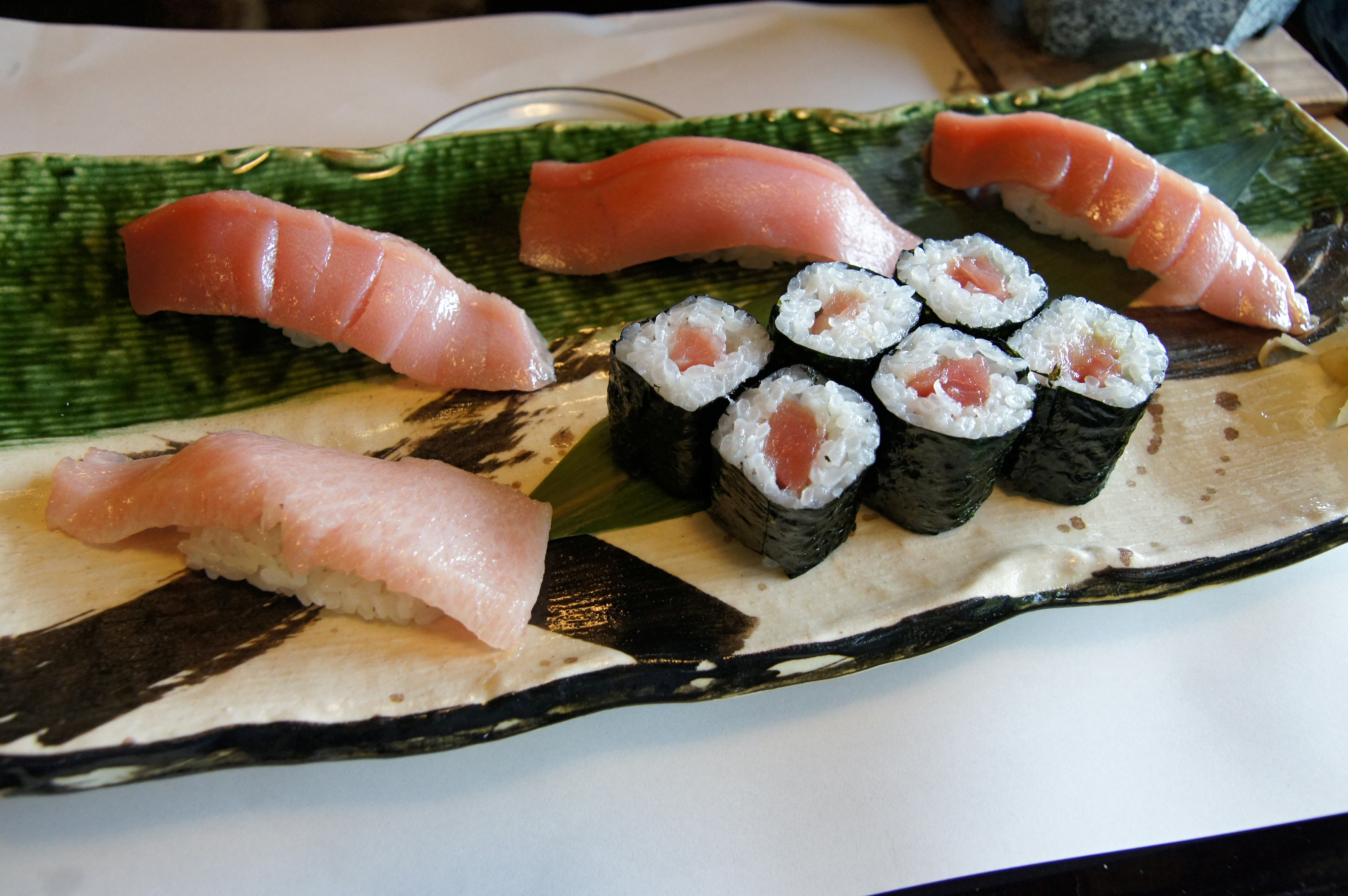 Rokusanen in Wakayama, Wakayama prefecture, Japan